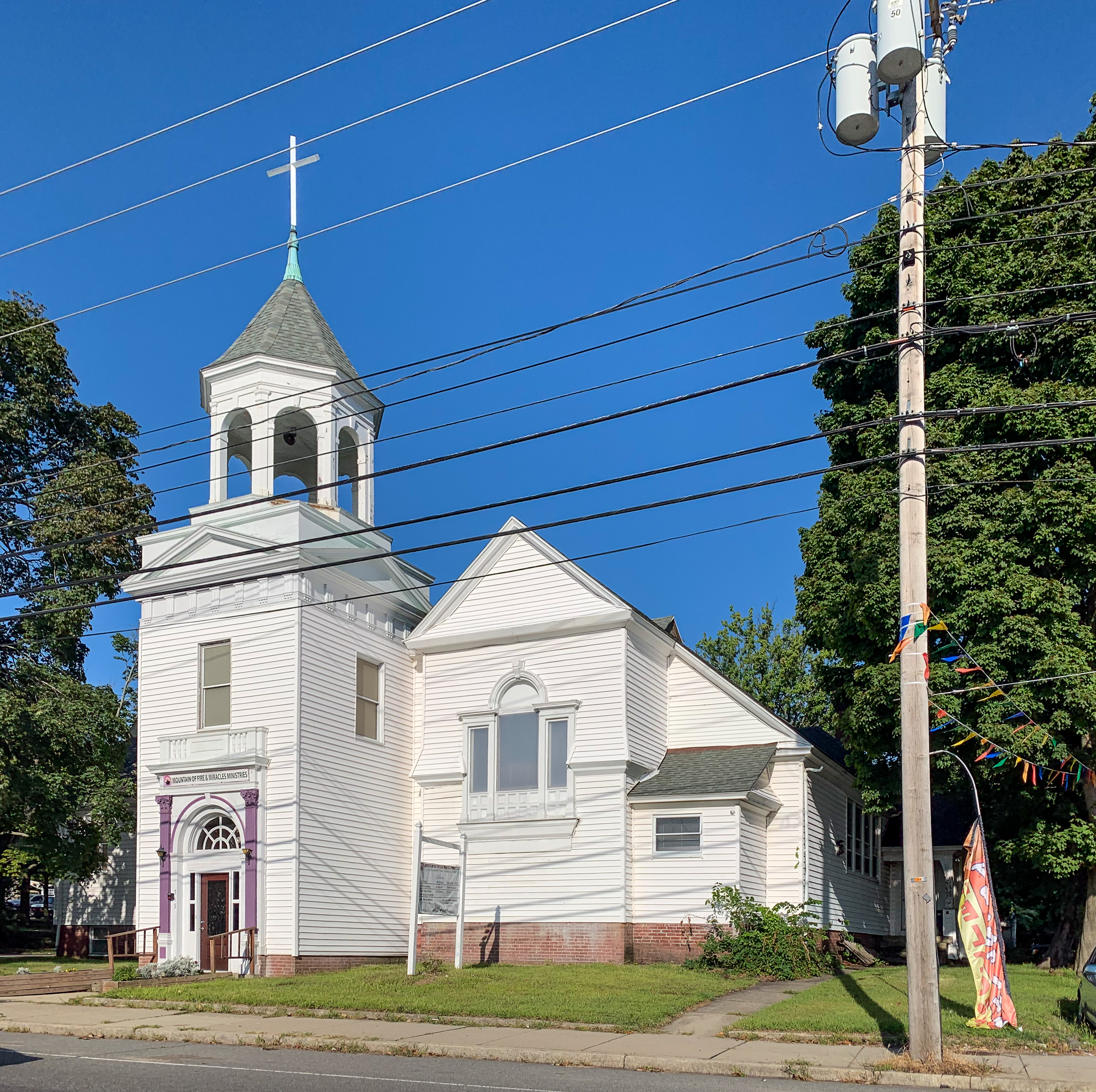 Mountain of Fire and Miracles Ministries, North Broadway, Rumford, East Providence, Rhode Island.